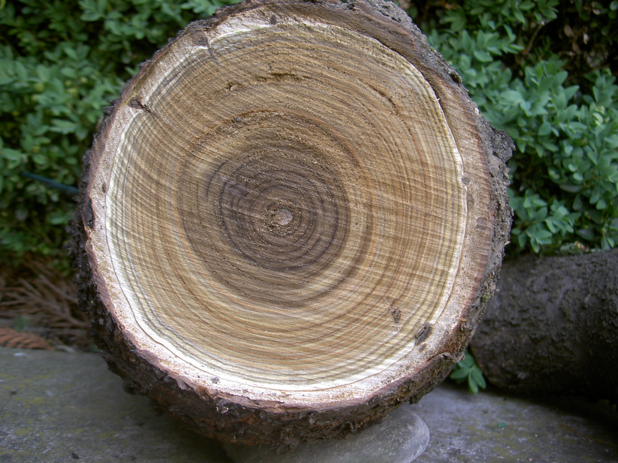 Rhus hirta, cross section of a trunk